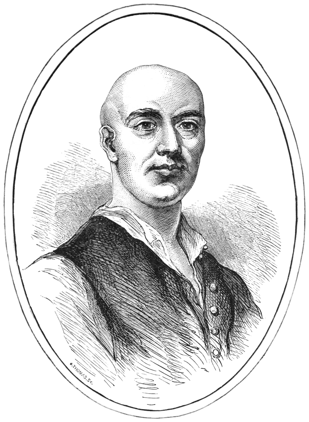 Jack Broughton, fighter Image caption from book source: JACK BROUGHTON (CHAMPION), 1734-1750 From the Painting by FRANK HAYMAN, R.A., formerly in the possession of the Duke of Cumberland.